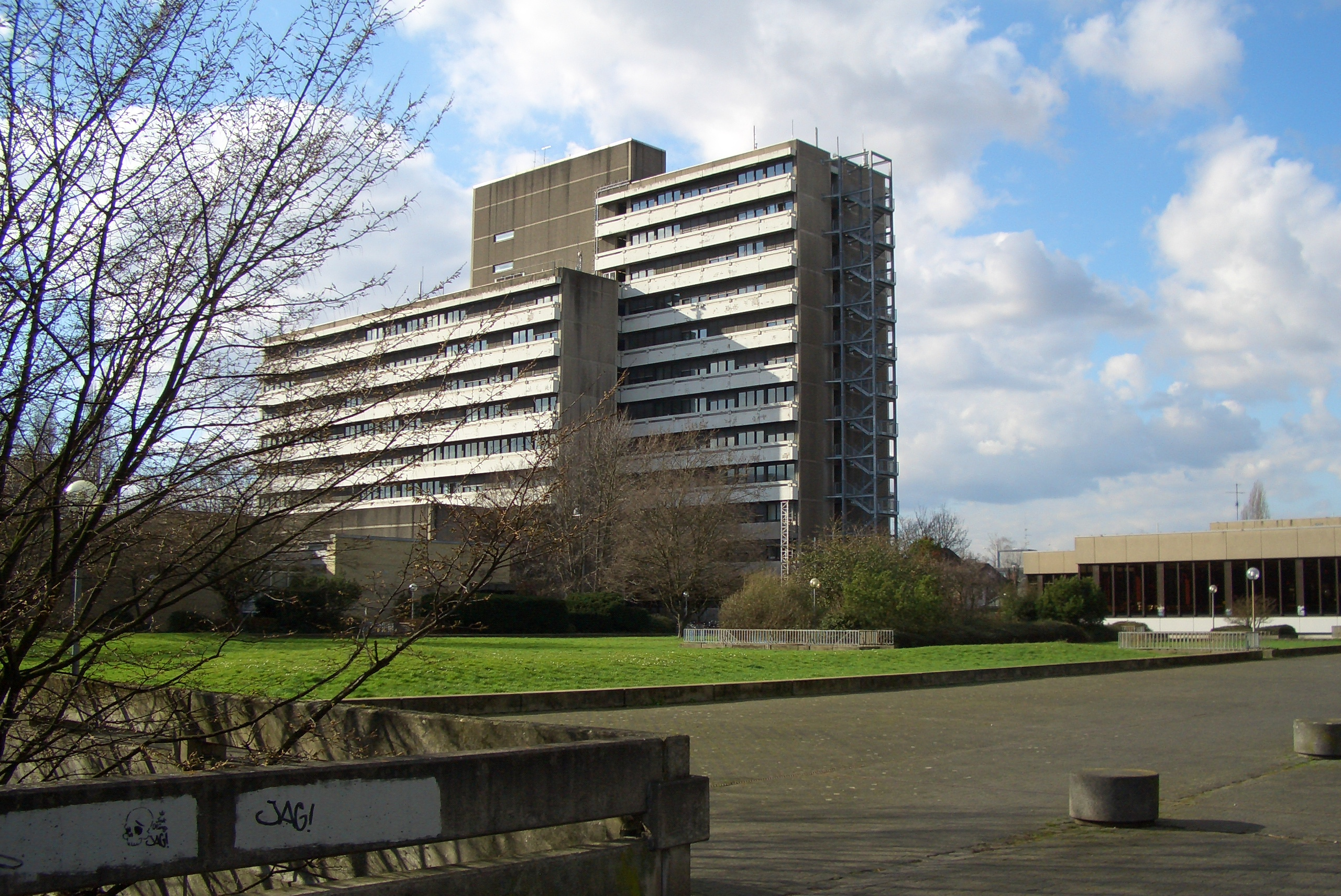 Photo of AVZ III ("Pädagogische Fakultät") of University of Bonn.